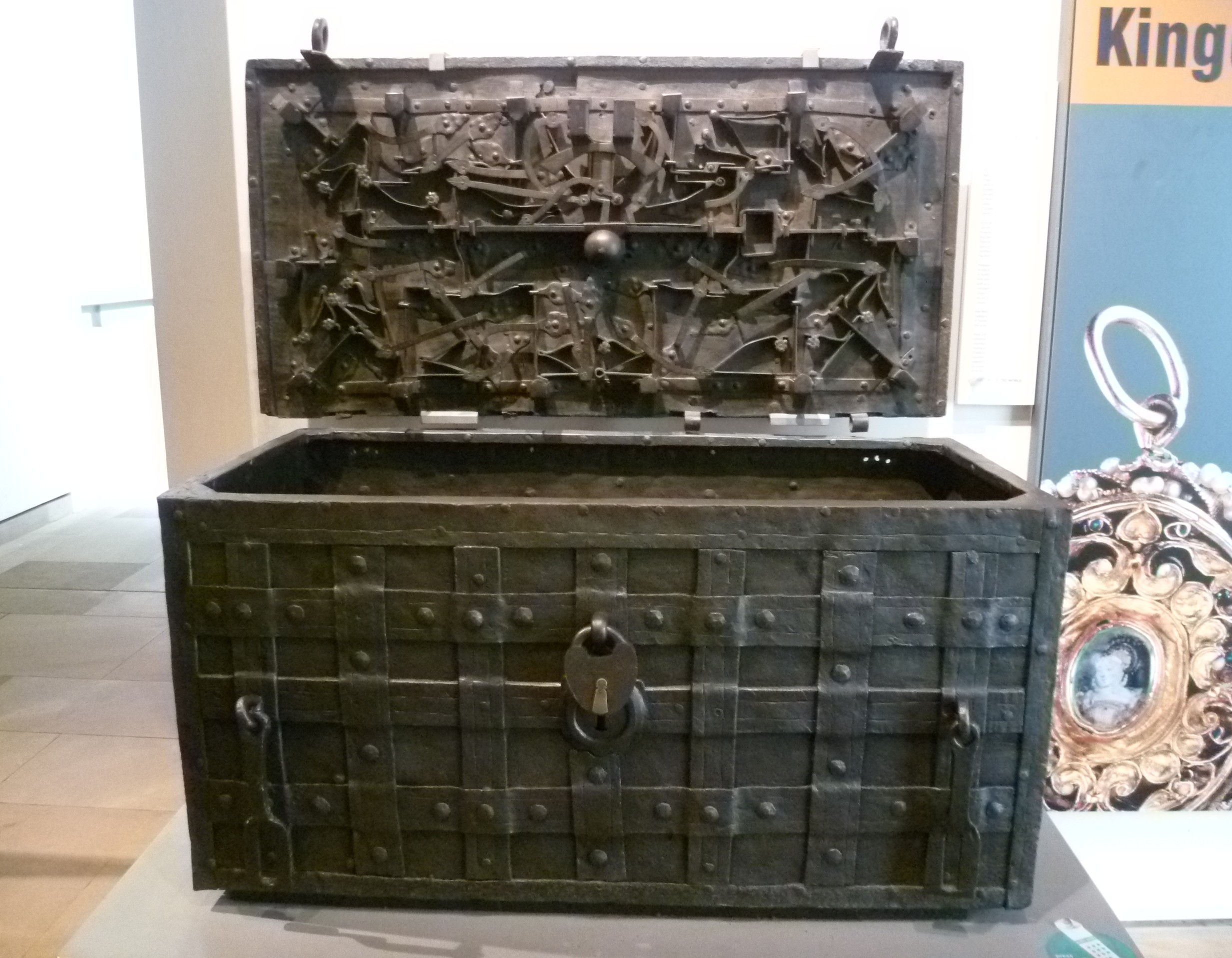 This chest was used to store the money and documents of the Company of Scotland, established in 1695. The Company was responsible for the attempt in 1698 to establish a trading colony, named 'New Caledonia', on the isthmus of Darien (modern Panama), which ended in disaster. The failure of the venture, through over-optimistic trading prospects, tropical sickness, Spanish hostility and English indifference, cost 2,000 lives and brought financial ruin to many of the Scottish nobility and the country's burgh corporations. England seized the opportunity to offer a sum of money, known as the 'equivalent', to compensate those affected in return for their votes in the Scottish Parliament for an incorporating union with England. By virtue of the power and authority to us given by the Court of Directors of the Indian and African Company of Scotland, You are hereby ordered in pursuance of your voyage to make the Crab Island, and if you find it free to take possession thereof in name of the Company; and from thence you are to proceed to the Bay of Darien and make the Isle called the Golden Island, which lies close by the shore some few leagues to the leeward of the mouth of the great River of Darien, in and about eight degrees of north latitude; and there make a settlement on the mainland as well as the said island, if proper (as we believe) and unpossessed by an European nation or state in amity with his Majesty; but if otherways, you are to bear to the leeward. Given under our hands at Edinburgh the twelfth day of July, 1698. -- Sailing Orders For The First Expedition, 1698